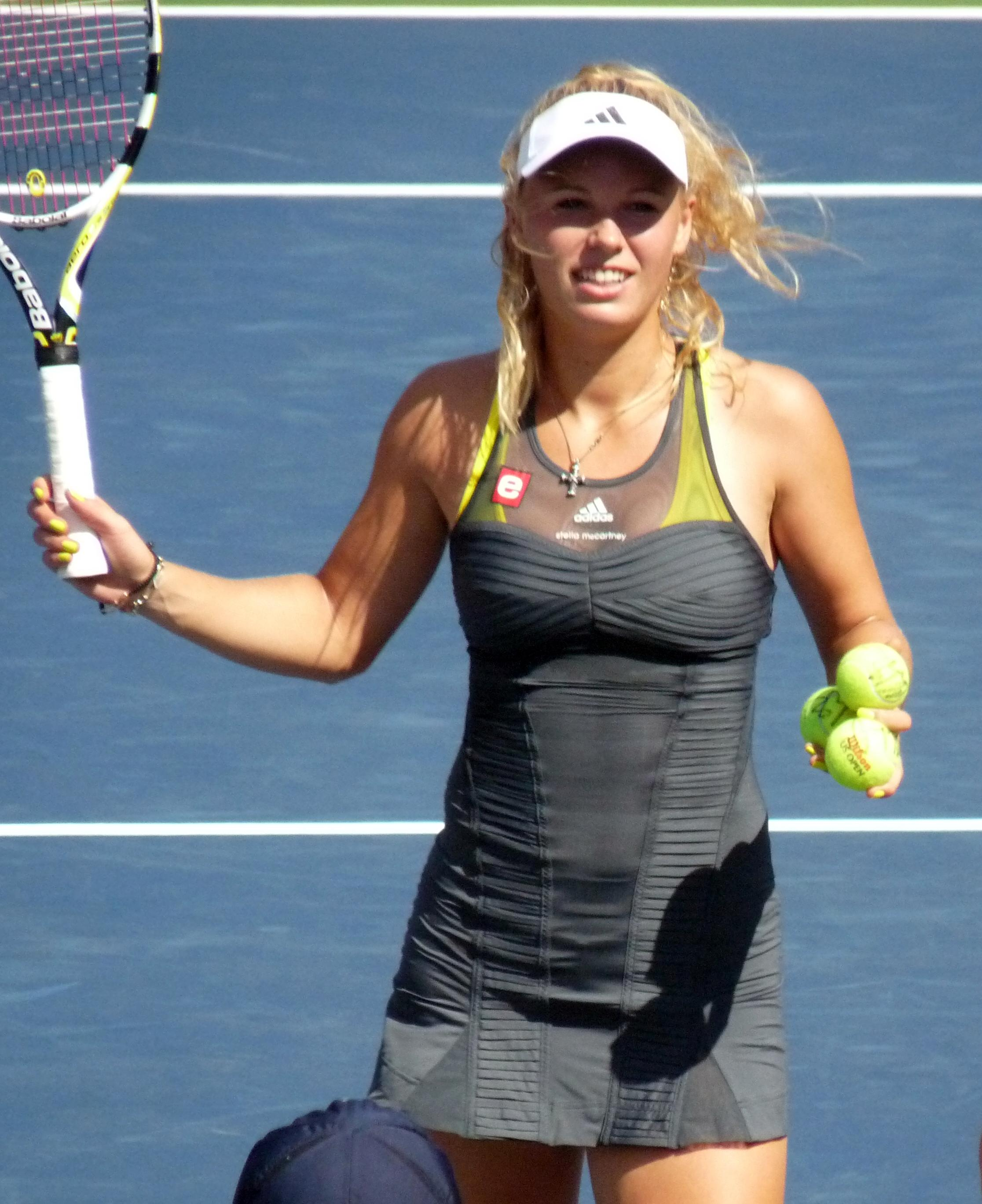 Caroline Wozniacki at the 2010 US Open after winning against Chan Yung-jan. 6-1, 6-0. (The balls appear to be signed.) The dress has a Adidas logo with the designer name "Stelle McChartney" beneath. The "e" on a red background refers to e-Boks a Danish web-appilacation for secure digital mail.